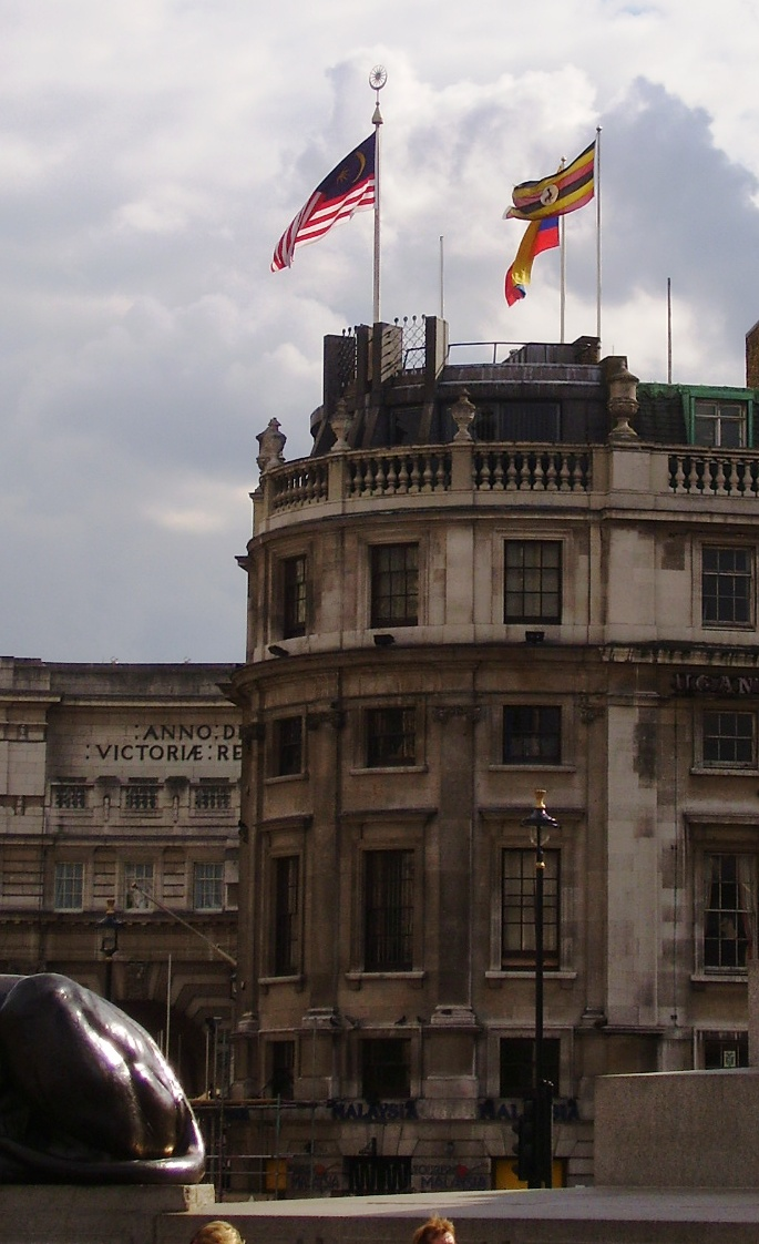 Uganda House, Trafalgar Square